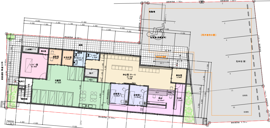 A sketch of clinic. (This sketch was created with this photographer's order.)